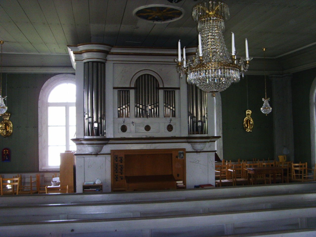 The church in Rejmyre, from 1837-1838.